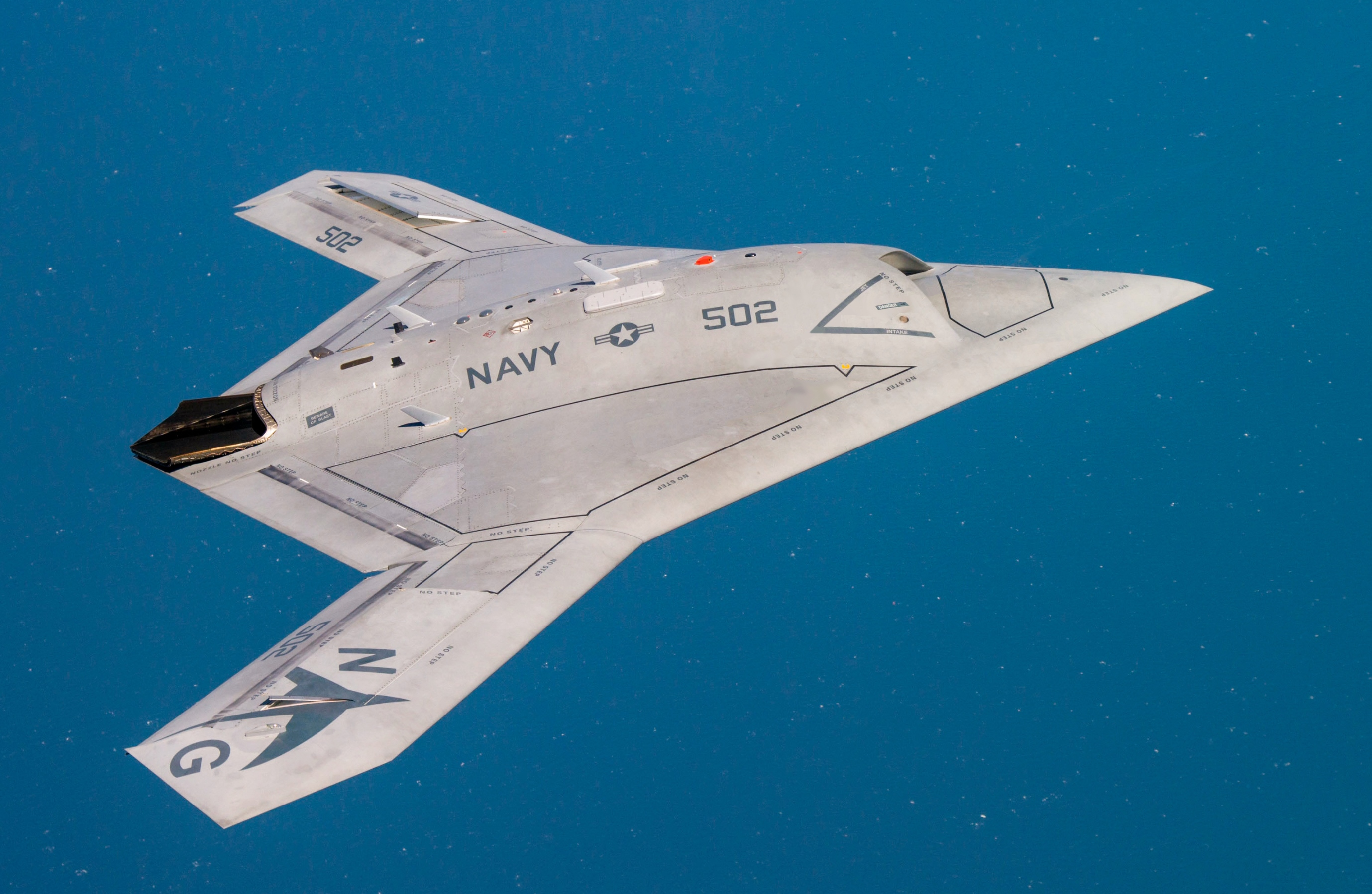 A unmanned X-47B operating over the Atlantic Test Range